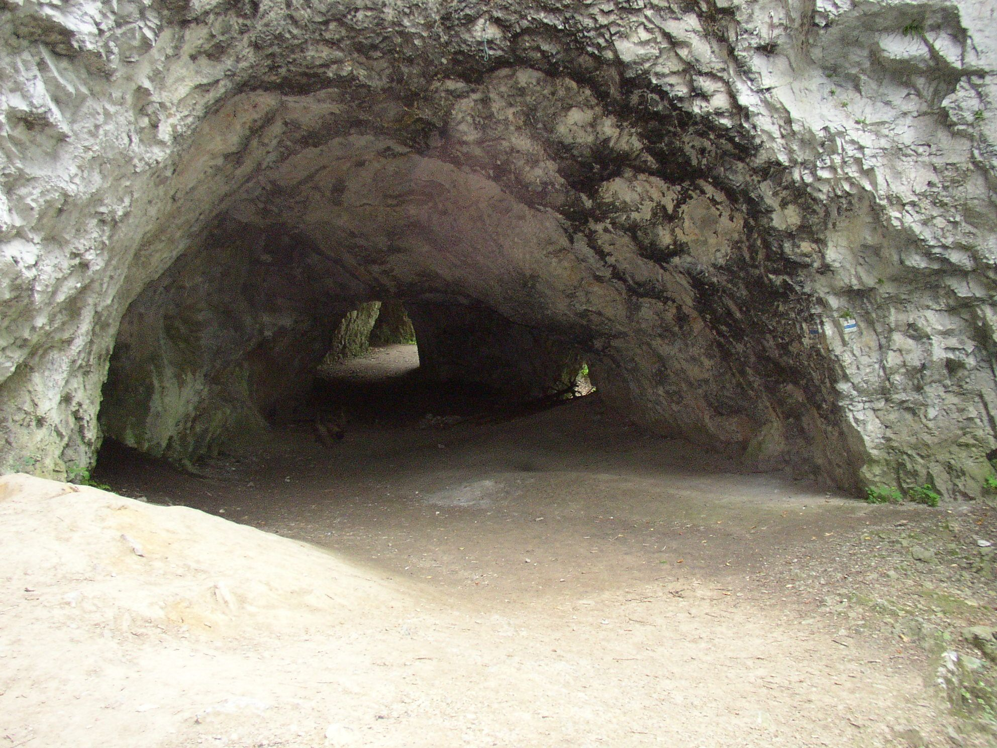 Entrance of the Jáchymka Cave in Moravian Karst, Czech Republic.